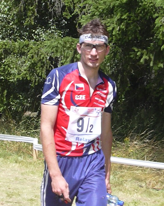 World Orienteering Championships 2008 in Olomouc, Czech Republic. On photo Michal Smola.